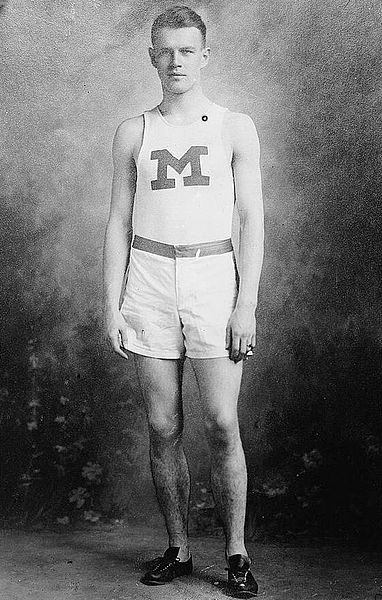 Ralph Craig, olympic champion